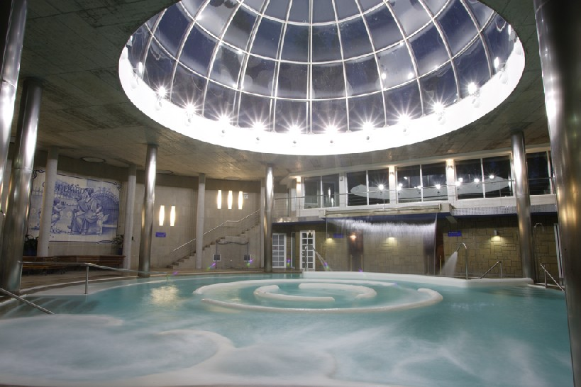 Palacio del Agua en el Balneario de Mondariz